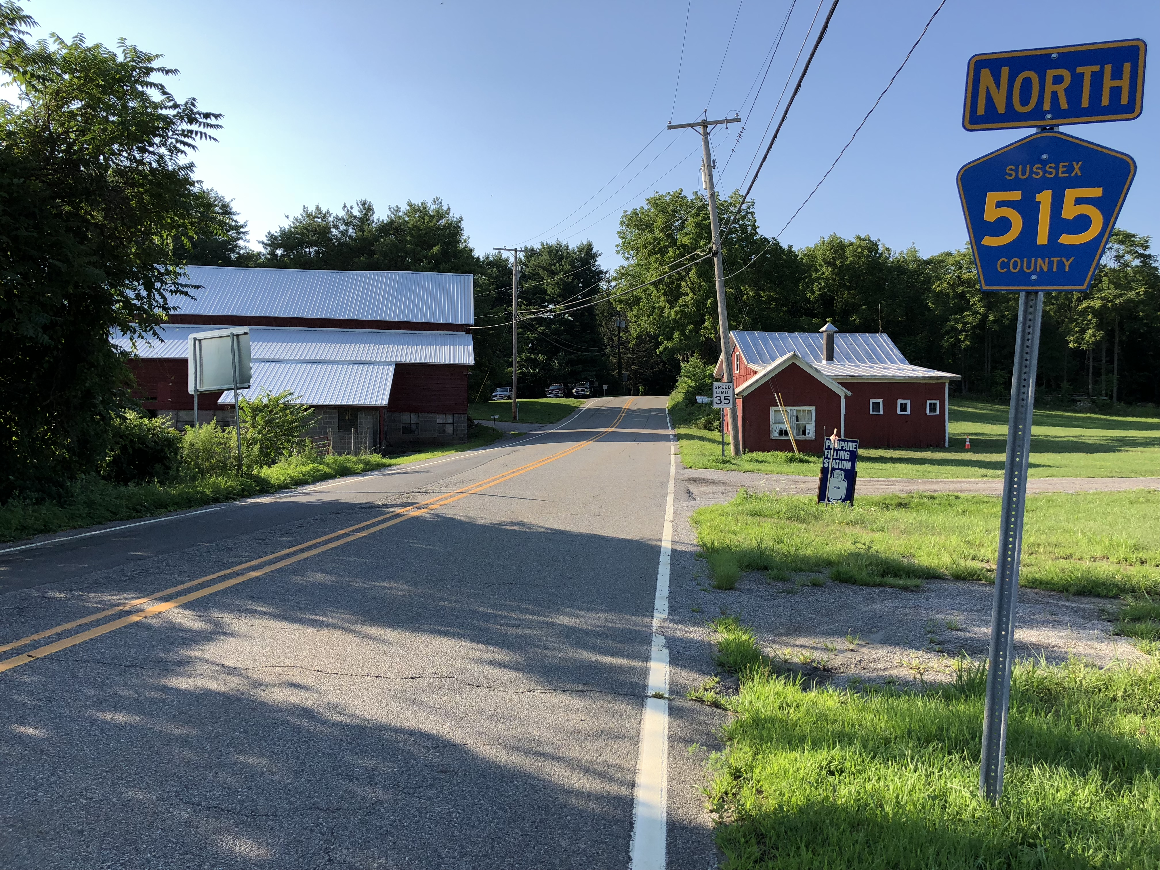 View north along Sussex County Route 515 (Prices Switch Road) just north of New Jersey State Route 94 (Vernon-Warwick Road) in Vernon Township, Sussex County, New Jersey